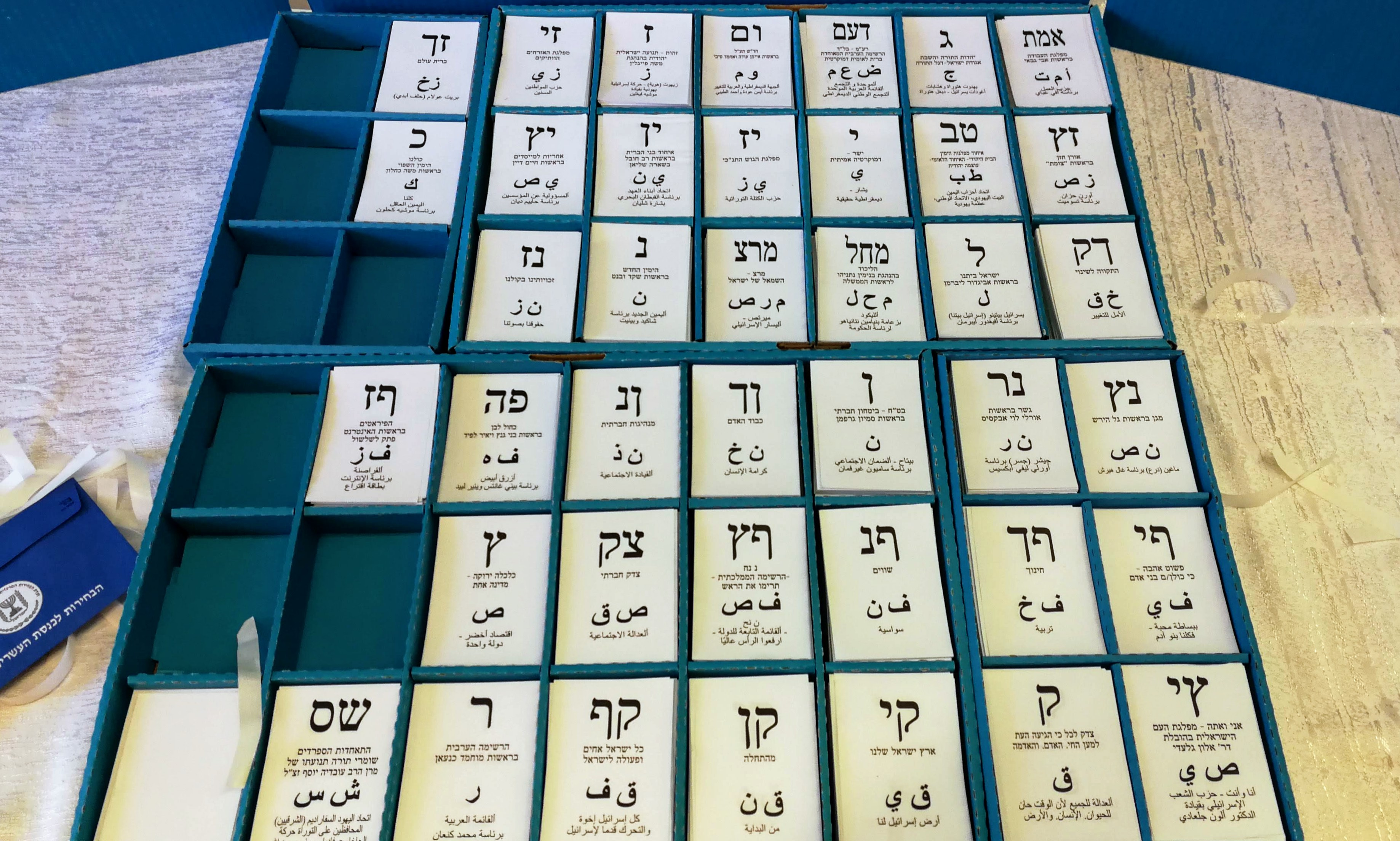 Ballots papers of Israeli legislative election, 2019